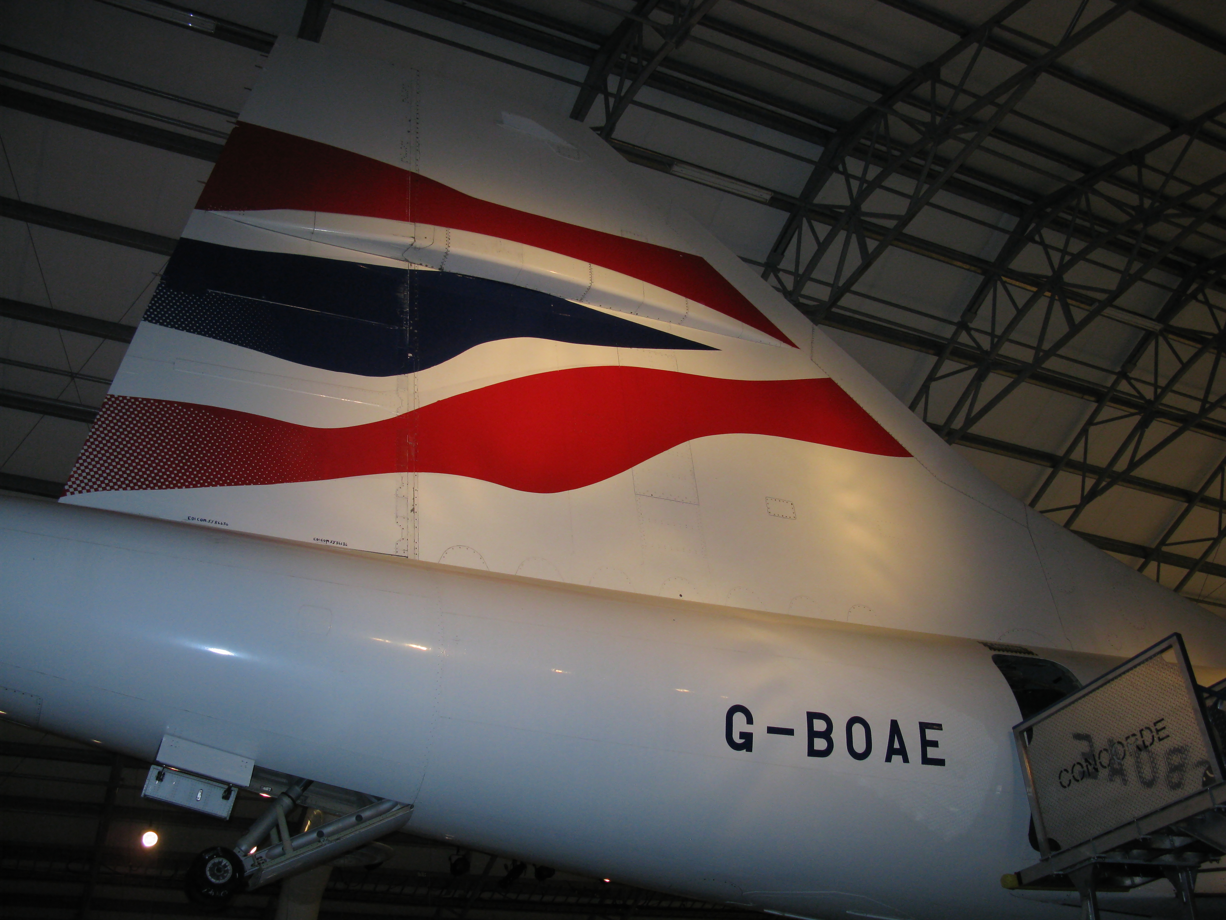 Concorde 212 on display at the Barbados Concorde Experience museum, Grantley Adams International Airport (BGI/TBPB).